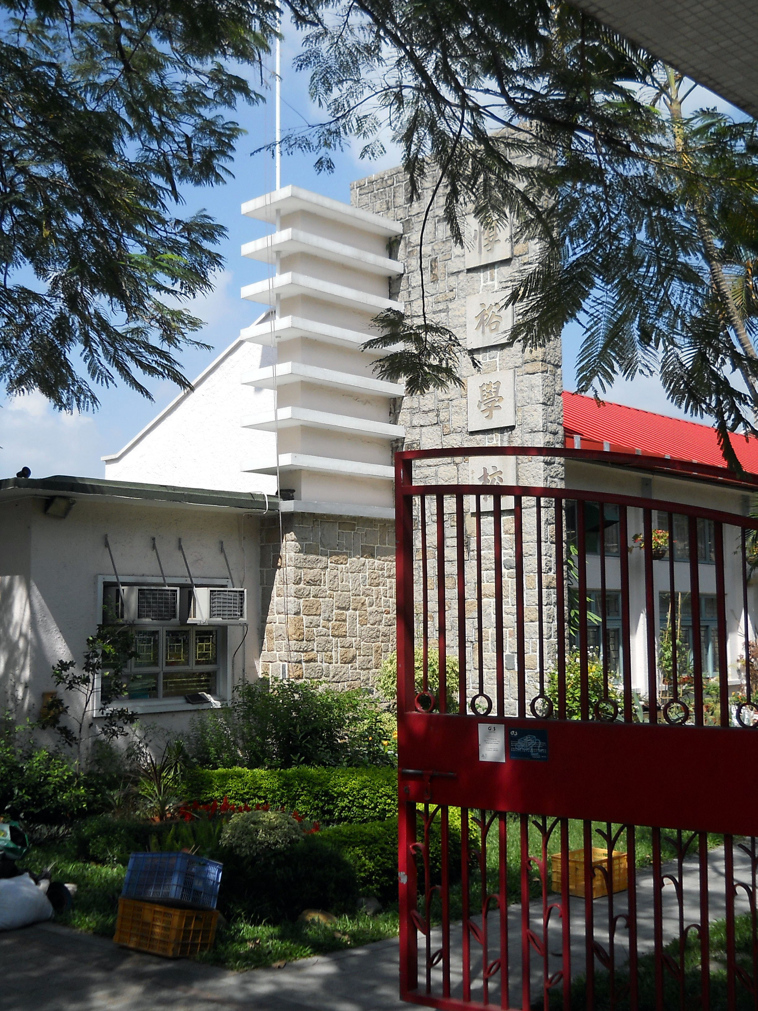 Tun Yu School